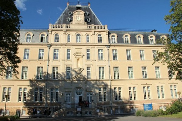 Lycée Jean Jaurès façade